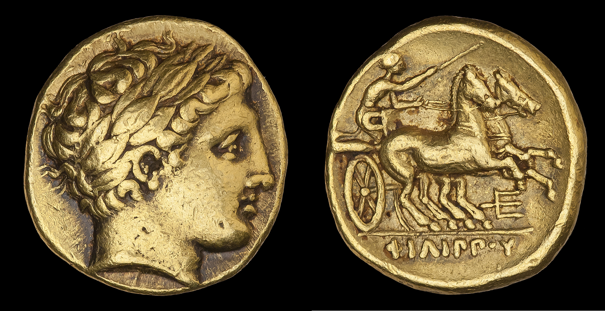 Starter of Philip II of Macedon